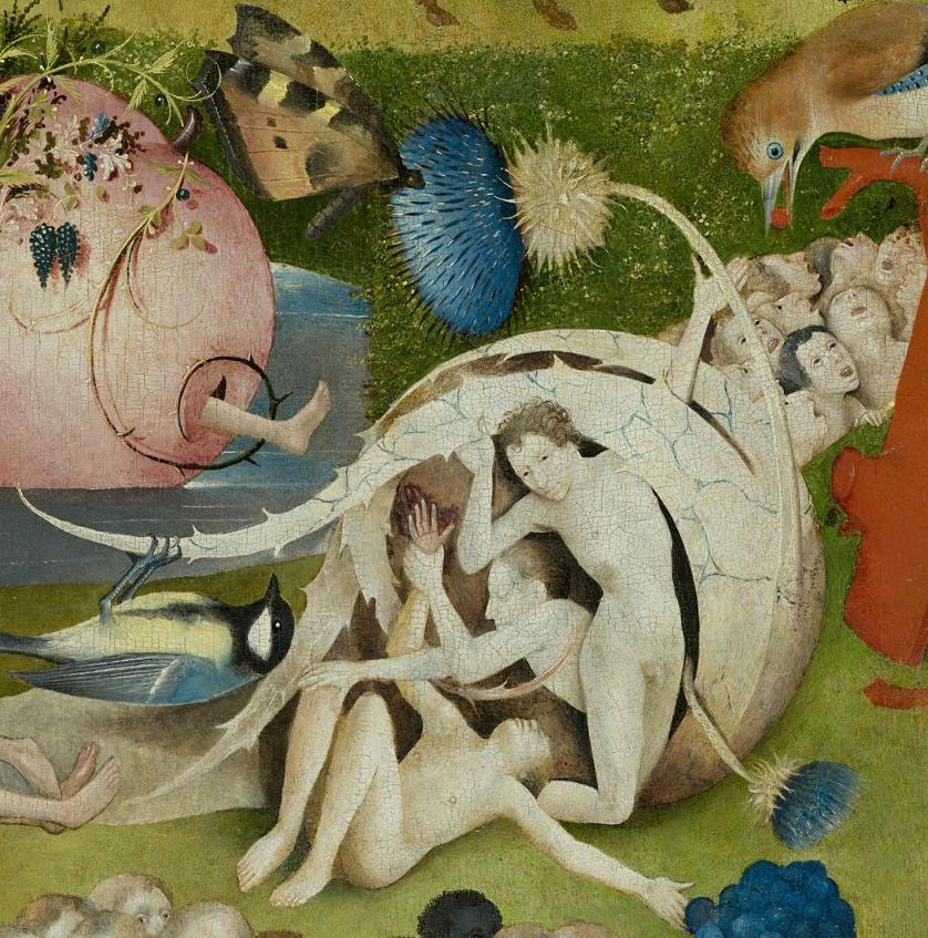 The Garden of Earthly Delights, central panel, detail.